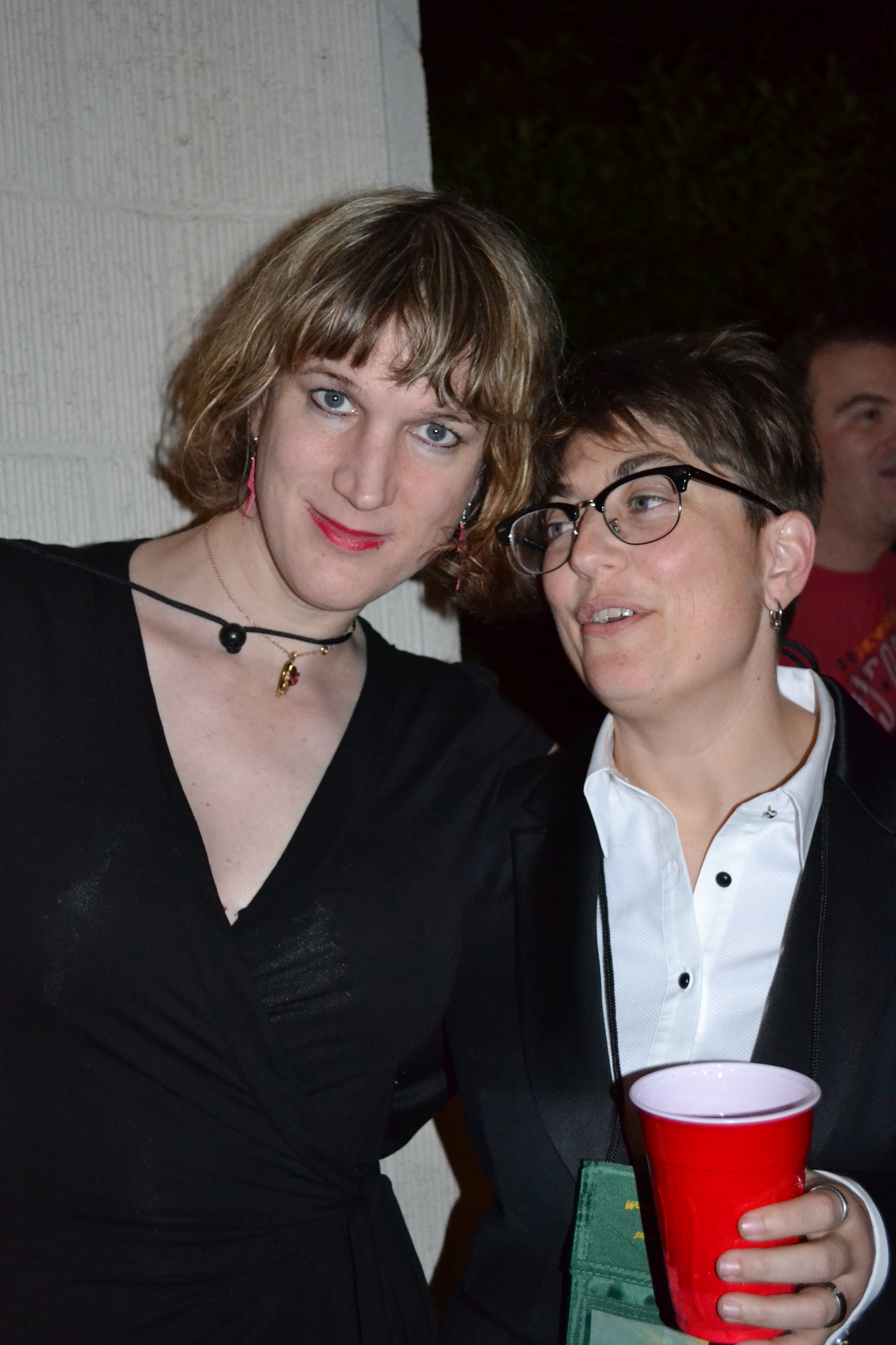 Charlie Jane Anders and Annalee Newitz at the 2011 World Fantasy Convention.